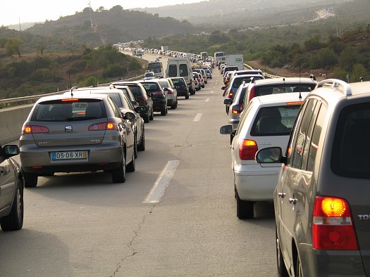 Congestion caused by a road accident, Algarve, Portugal.